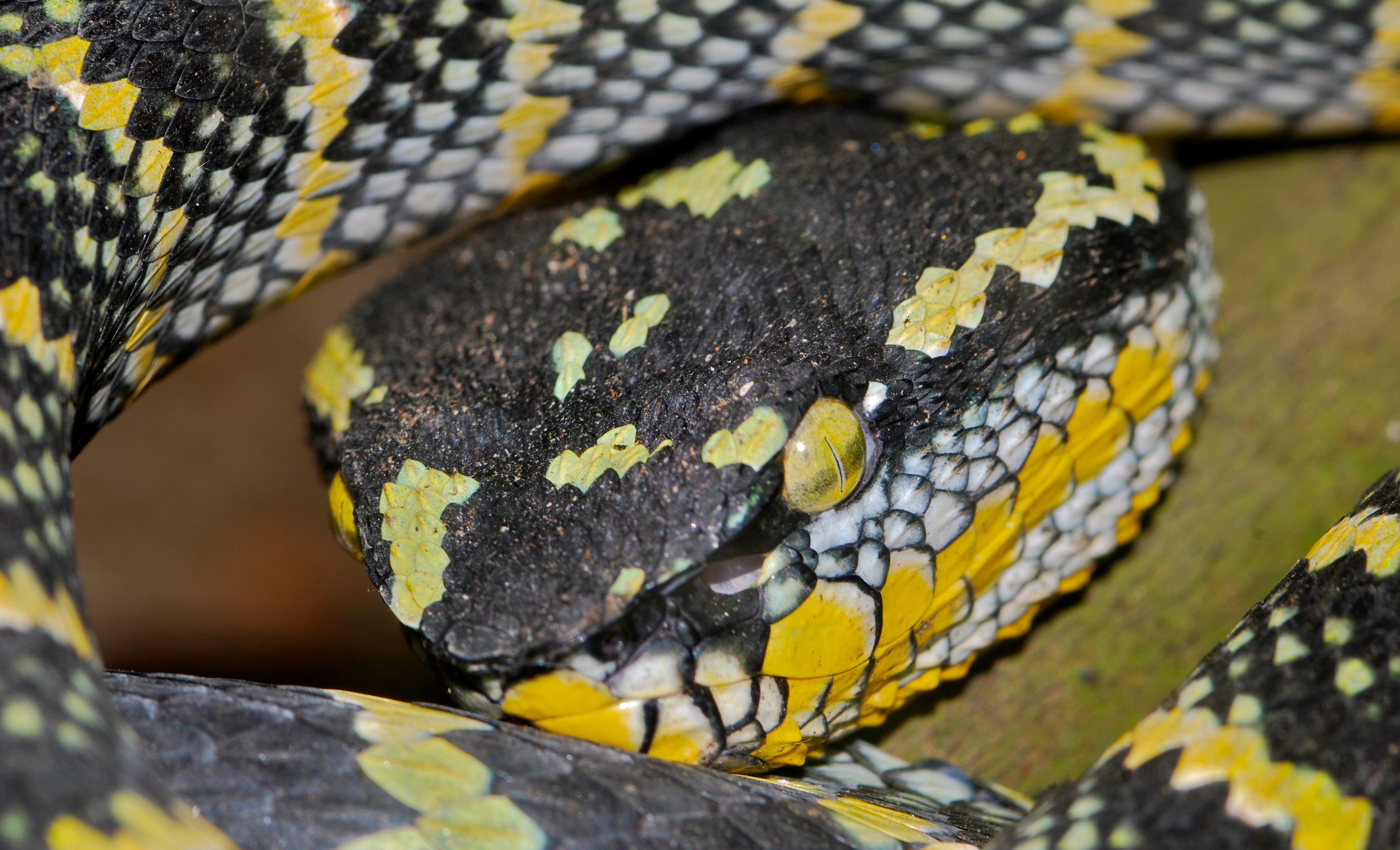 Butterfly Garden, Brinchang, Cameron Highlands, Pahang, MALAYSIA